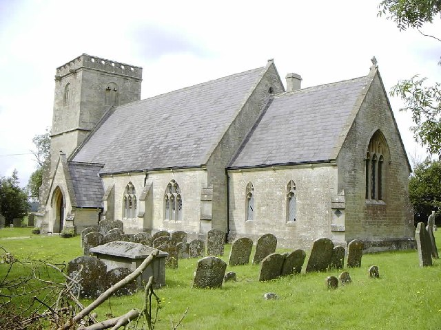 Garsdon, Wiltshire. The church of All Saints.